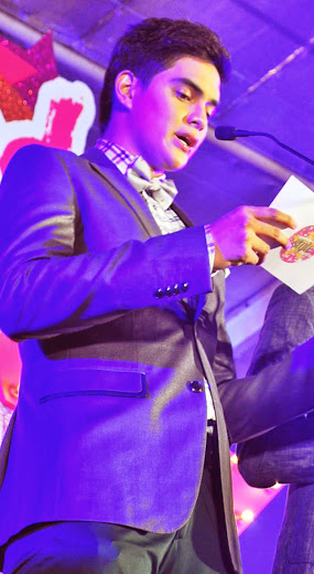 Juancho Trivino at 2013 Candy Style Awards,May 10, 2013